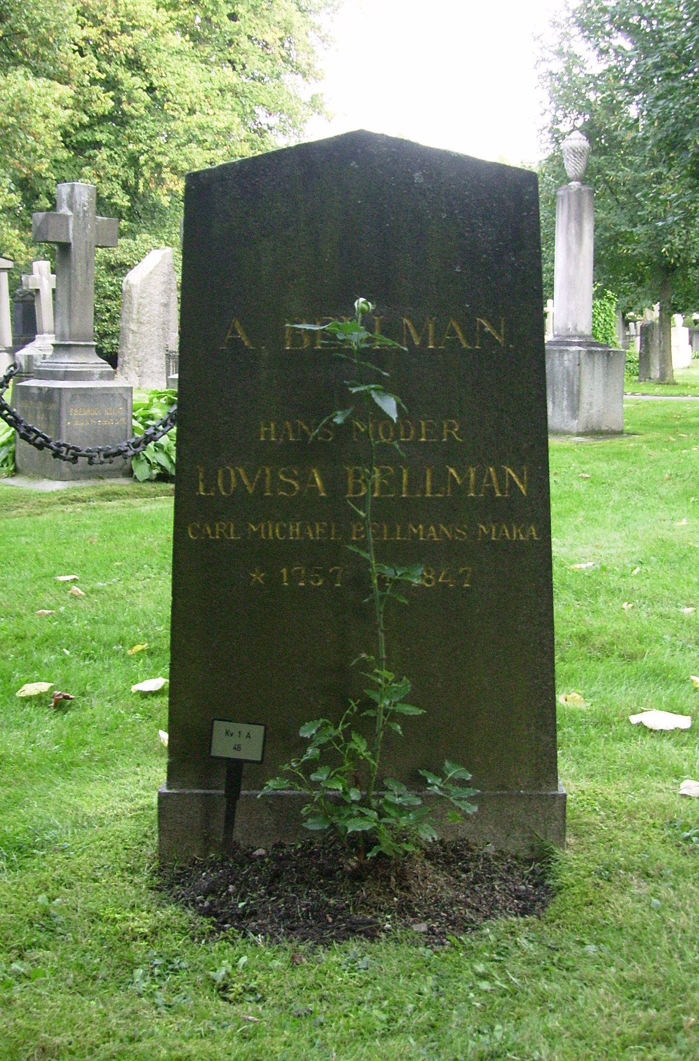 Picture of Lovisa Bellman's grave at Norra begravningsplatsen in Solna